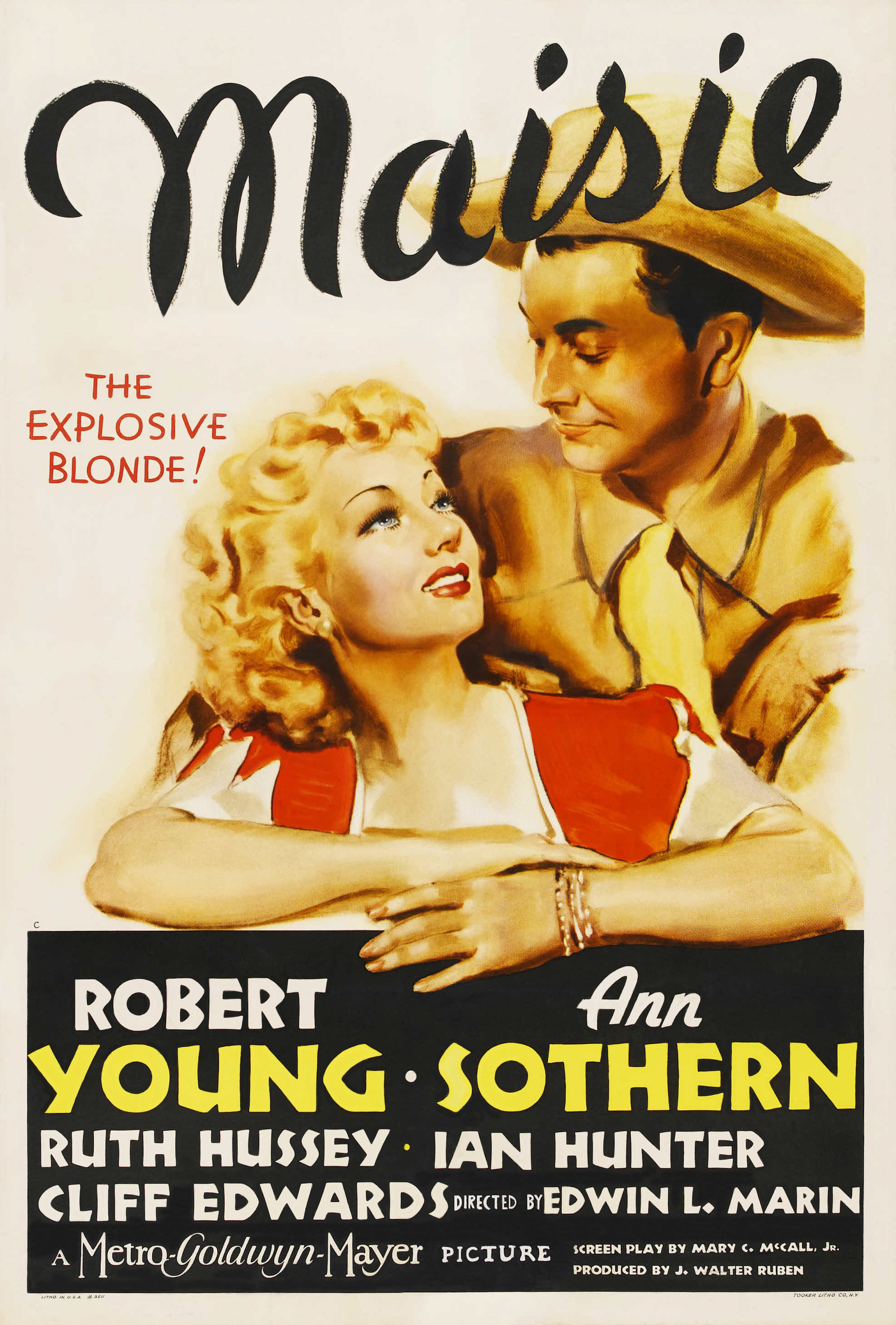 Poster for the American comedy film Maisie (1939). The item has no copyright markings on it as can be seen in the links above. At bottom left is Litho in USA, #3511 which probably pertains to the printing of the poster. At bottom right is Tooker Litho Co. NY-they printed the poster.